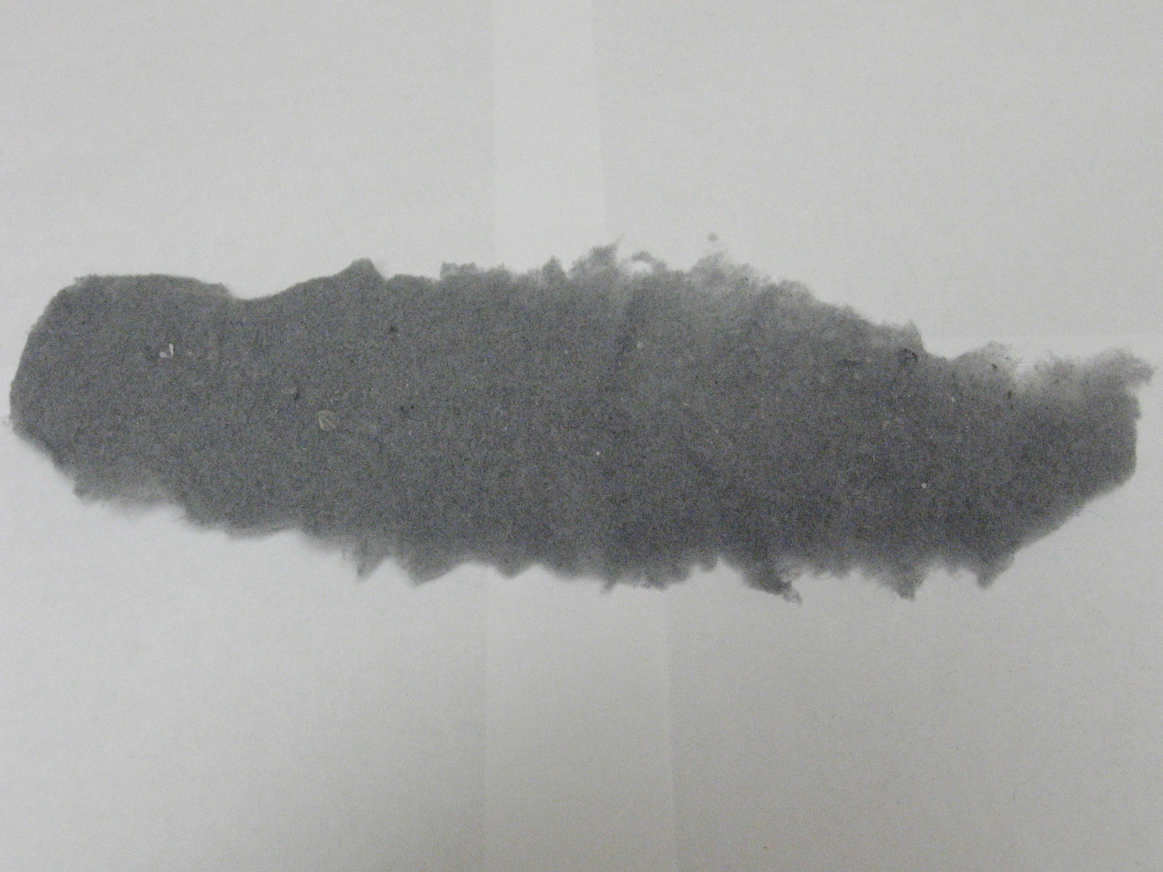 A strip of dryer lint